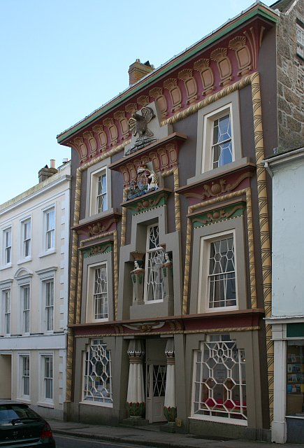 The Egyptian House, Chapel Street, Penzance. This extraordinary terraced house had its egyptian facade created in the 1830's, a time when interest in egyptology was high. It has been restored to its original colours.